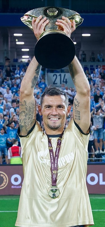 Dejan Lovren celebrating with the 2020 Russian Super Cup.